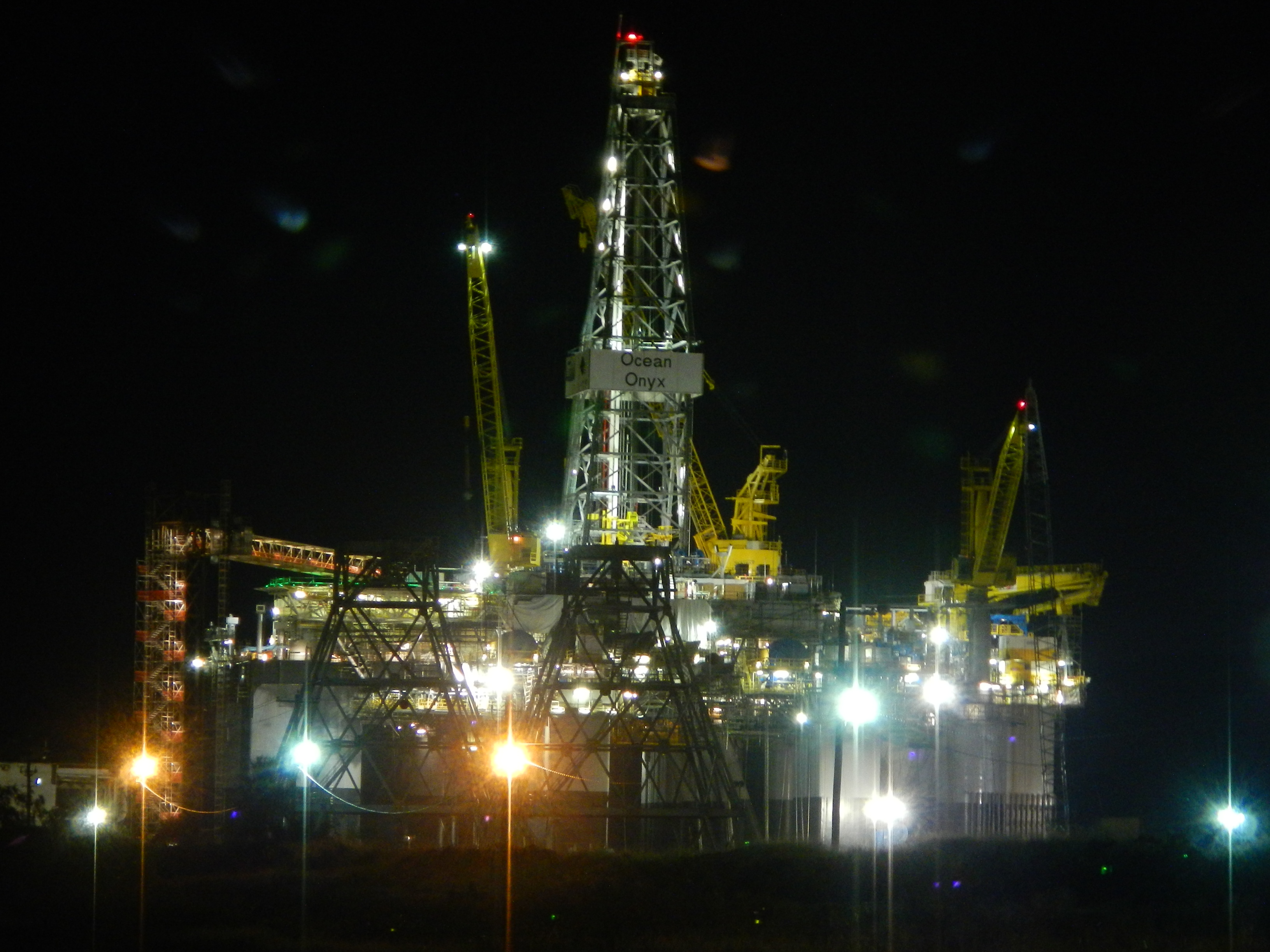 Brownsville-Harlingen, TX, TX, USA